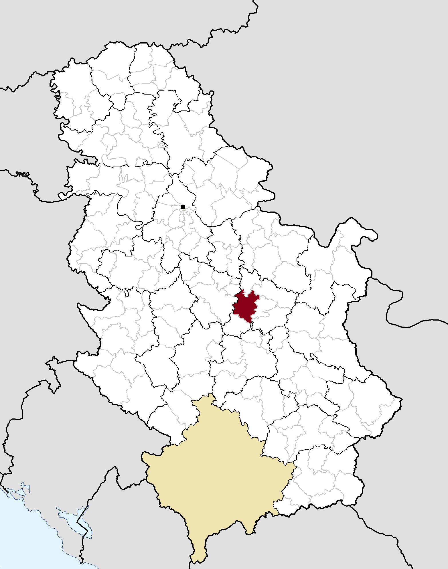 Municipal location in Serbia